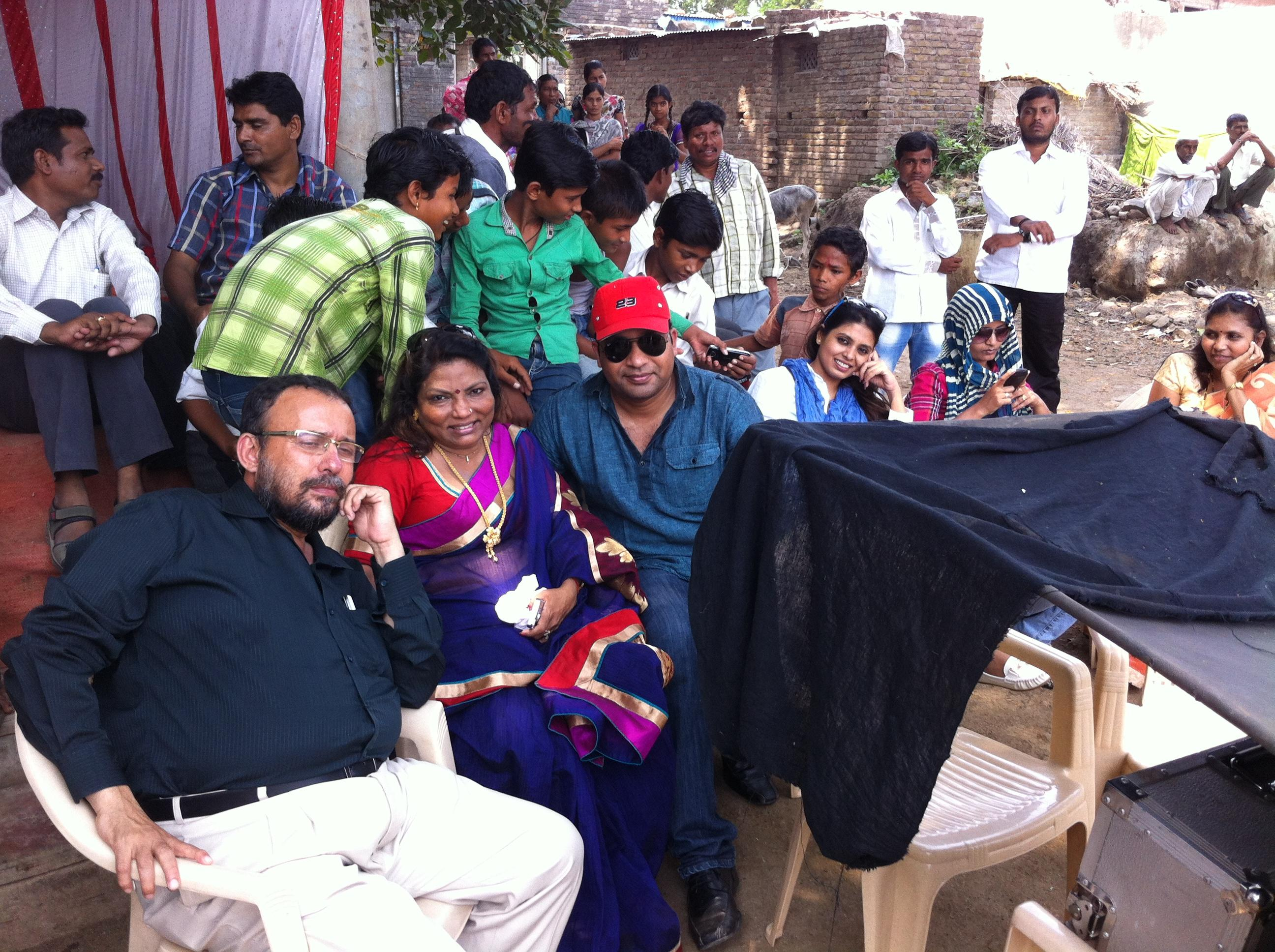 Khairlanji movie shooting